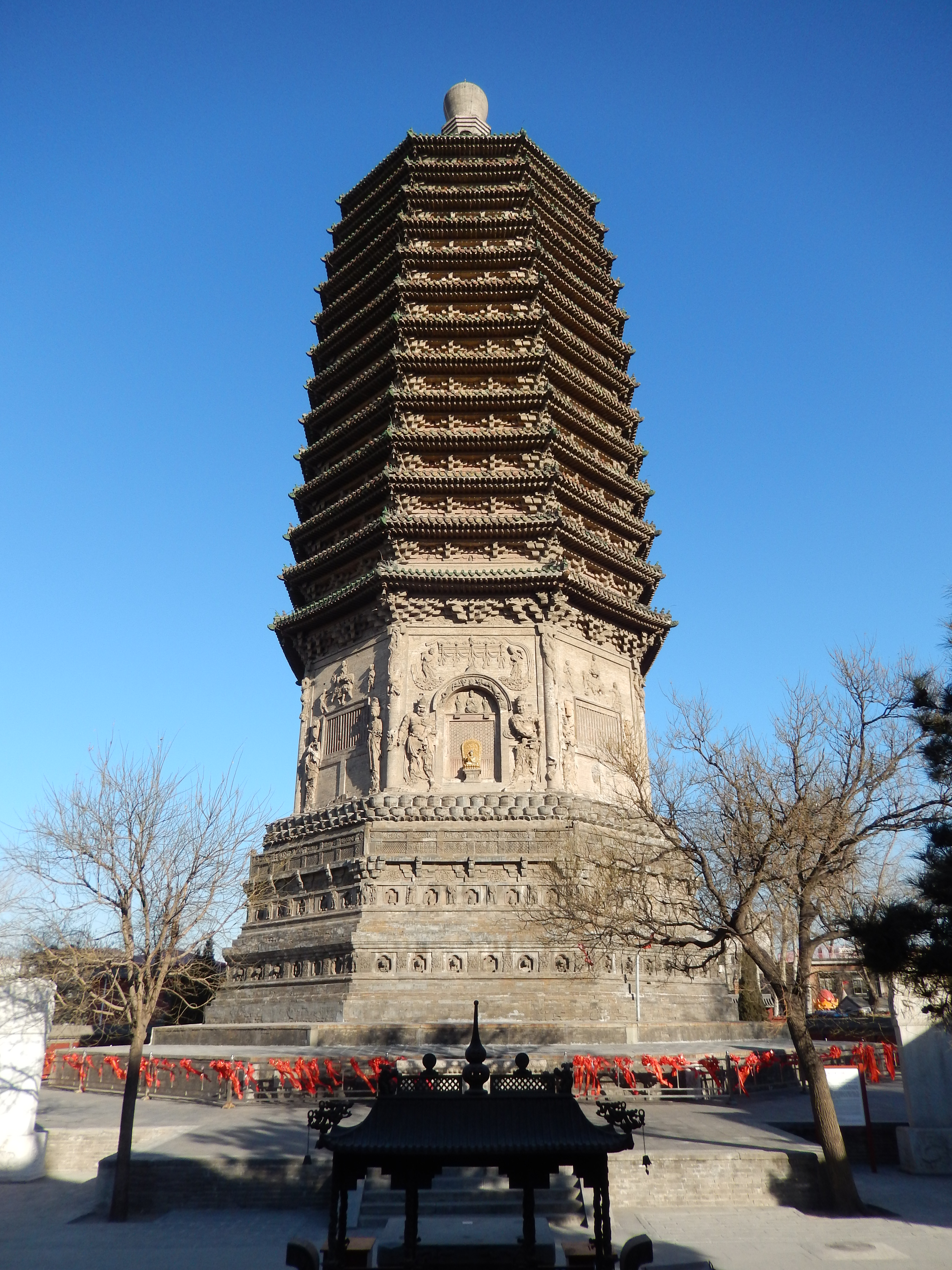 Octagonal, thirteen-storeyed, solid brick pagoda at the Temple of Heavenly Tranquillity (天寧寺), Beijing, China. Built during the Liao dynasty (916-1125) on the site of a wooden pagoda constructed during the Sui dynasty in 602.